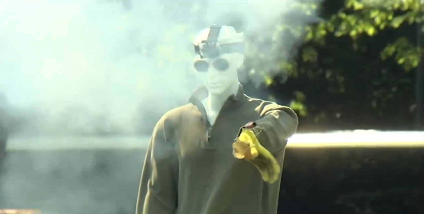 Mannequin targeted in CPSC Fireworks Safety Demonstration 2017. CPSC Acting Chairman Ann Marie Buerkle talks about fireworks safety. This video includes dramatic fireworks demonstrations. Leave professional fireworks to the professionals and celebrate safely.